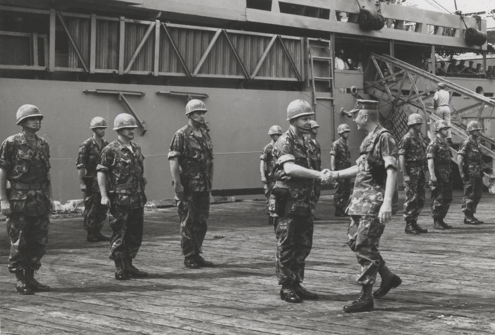 3rd Marine Division commander MG William K. Jones farewell 2/9 Marines commander Lt Col. Robert J Modjeski at Da Nang during Operation Keystone Eagle